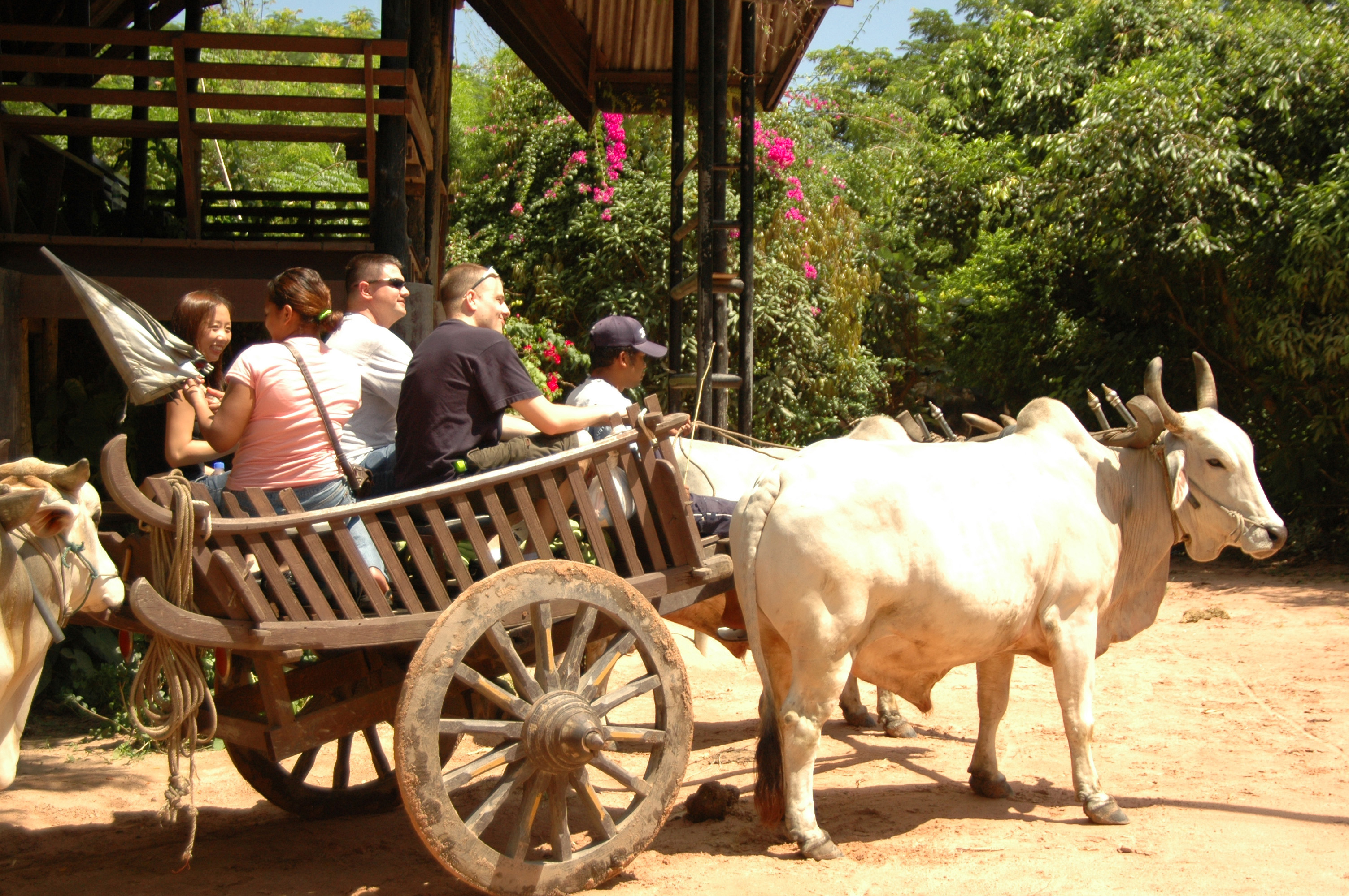 060905-N-5387K-007 Pattaya, Thailand (Sept. 5, 2006) - A group of Sailors assigned to USS Kitty Hawk (CV 63) ride in an ox cart while on a Morale, Welfare and Recreation tour at the Elephant Village in Pattaya, Thailand. Kitty Hawk demonstrates power projection and sea control as the U.S. Navy's only permanently forward deployed aircraft carrier. U.S. Navy photo by Mass Communication Specialist 3rd Class Juan King (RELEASED), Ochsenkarren